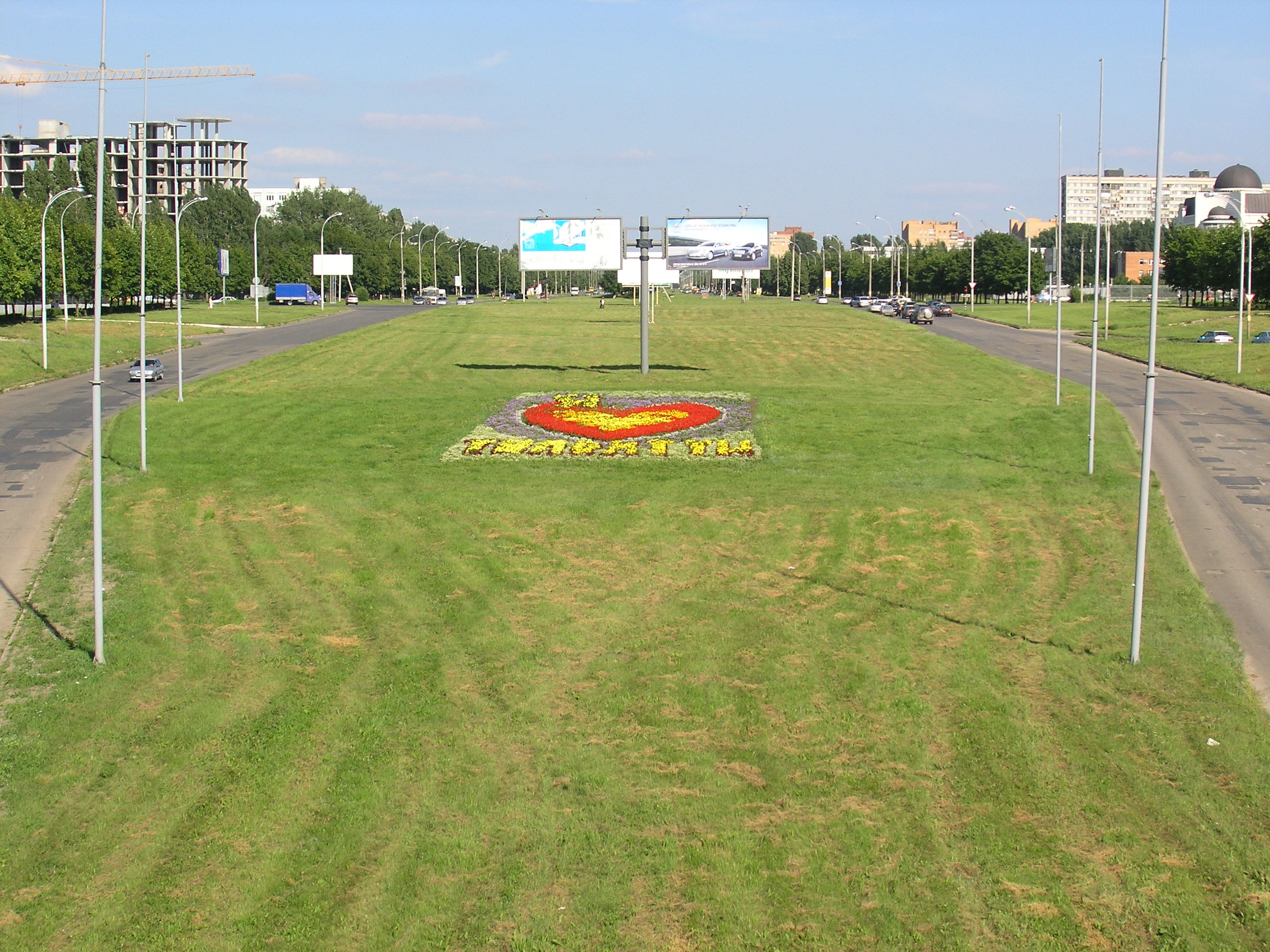 Leninsky prospekt, Togliatti, Russia